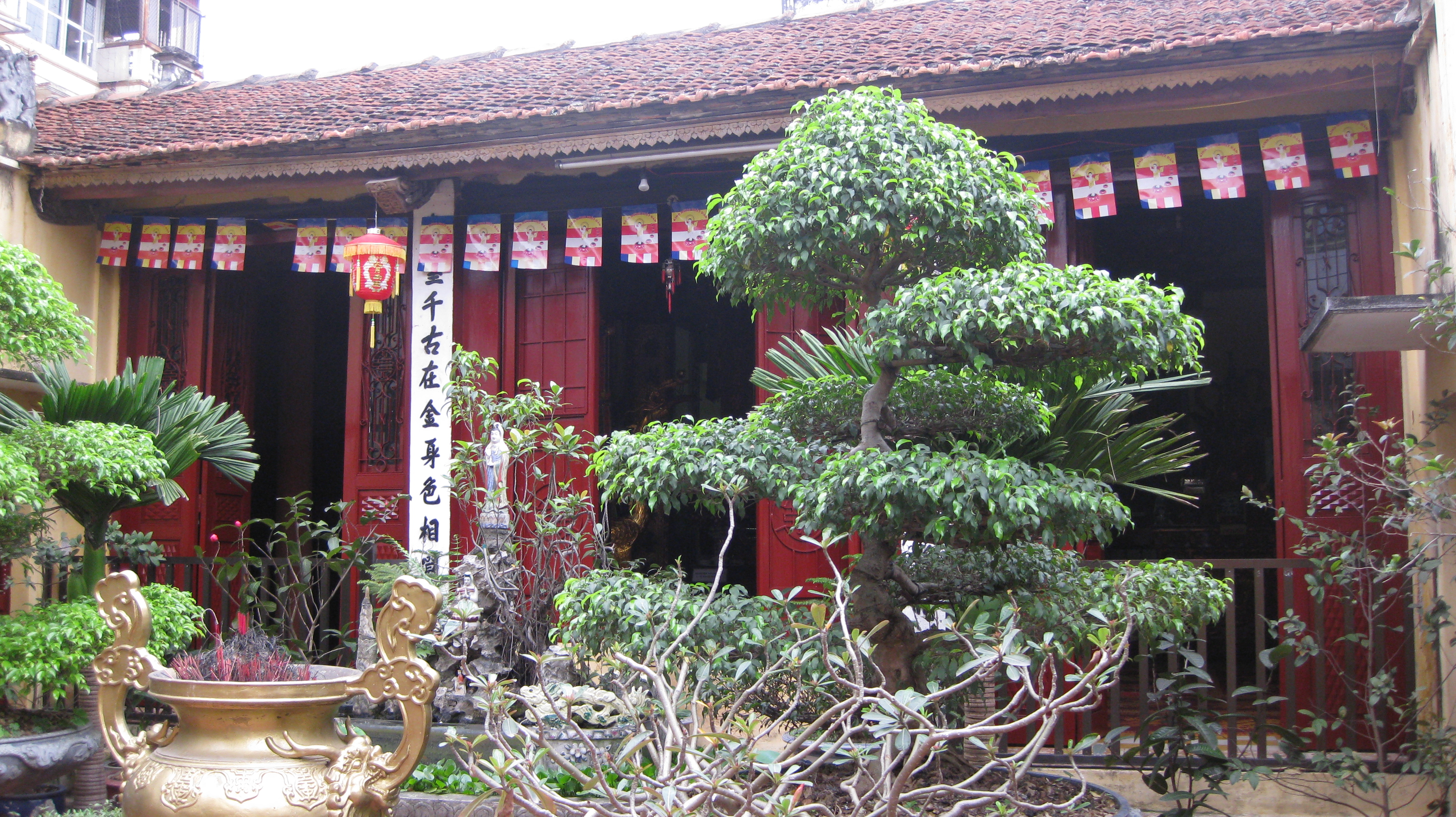 Main hall of Bà Ngô Pagoda